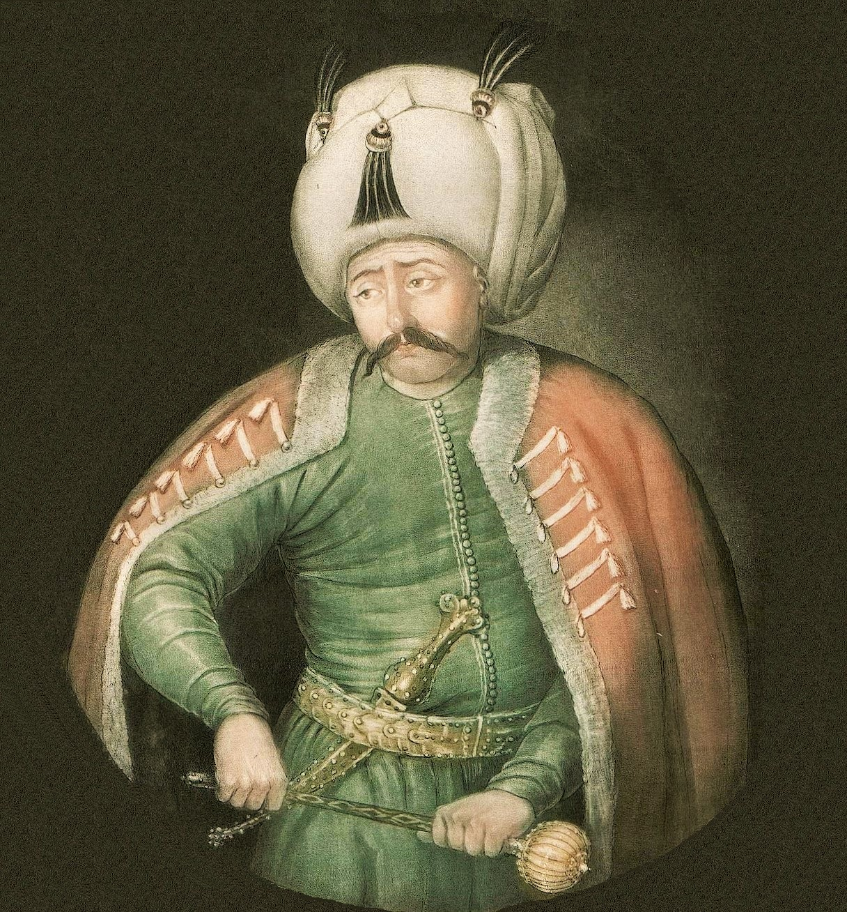 Selim I (Yavuz Sultan Selim)